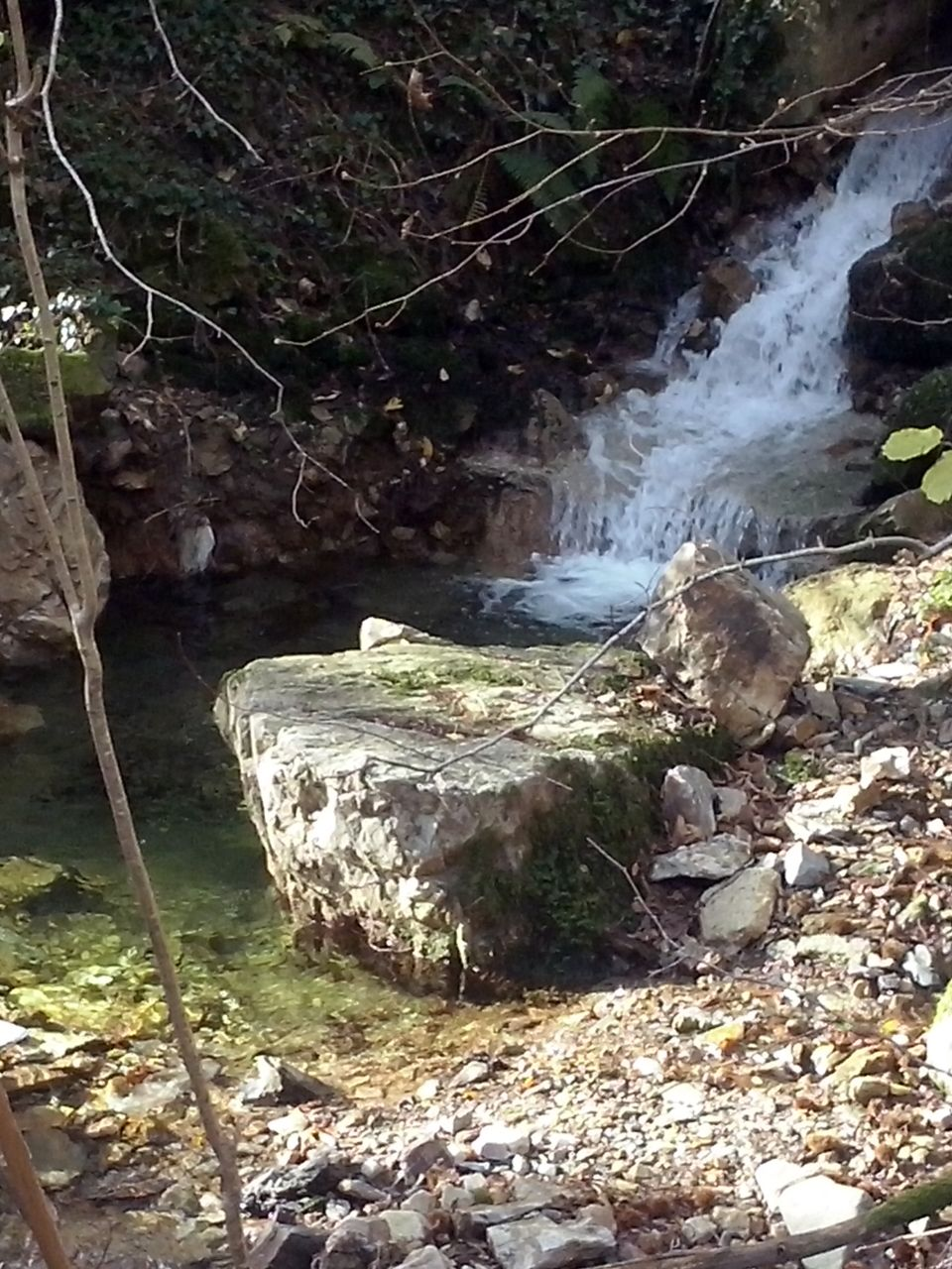 Spanish village called Roncesvalles in the province of Navarra